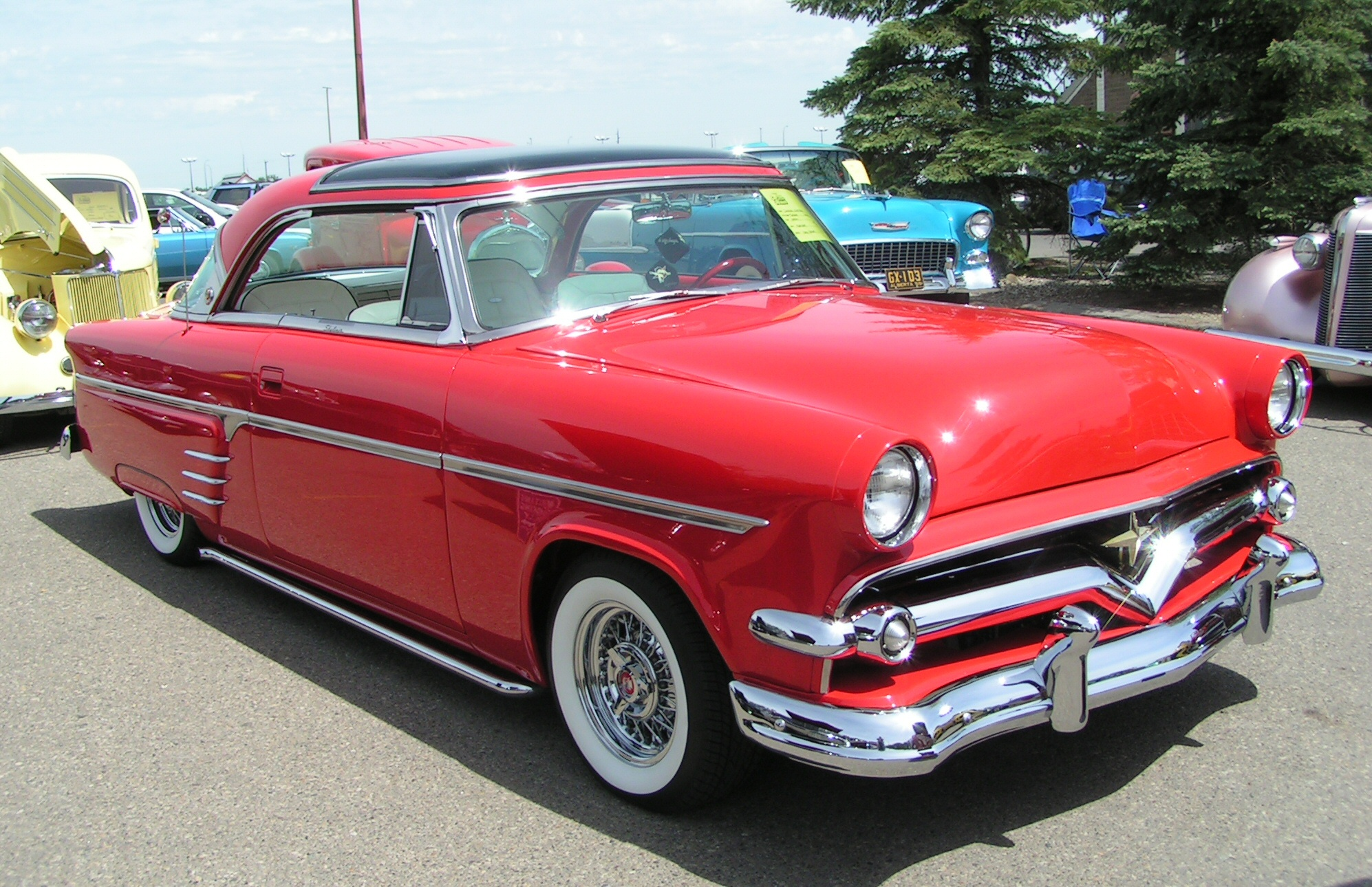 Canadian 1954 Meteor Sky Liner